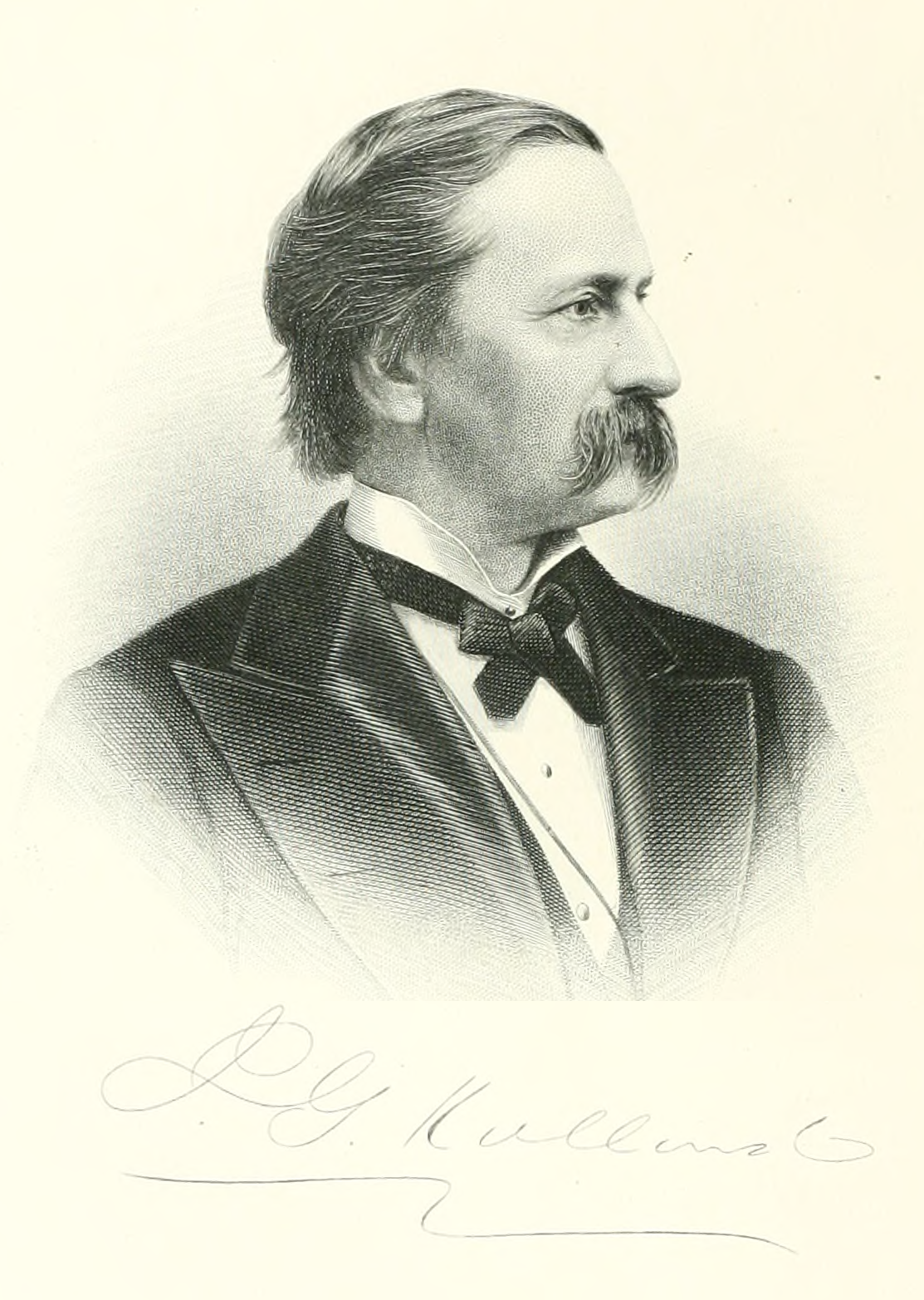 Engraving of Josiah Gilbert Holland (July 24, 1819 – October 12, 1881) an American novelist and poet who also wrote under the pseudonym Timothy Titcomb.